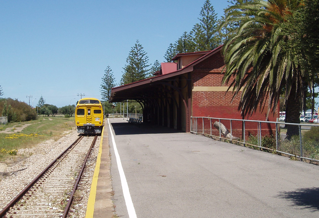 TransAdelaide railcars 2117/2008 at Outer Harbor with 11.58 departure to Adelaide. Outer Harbor